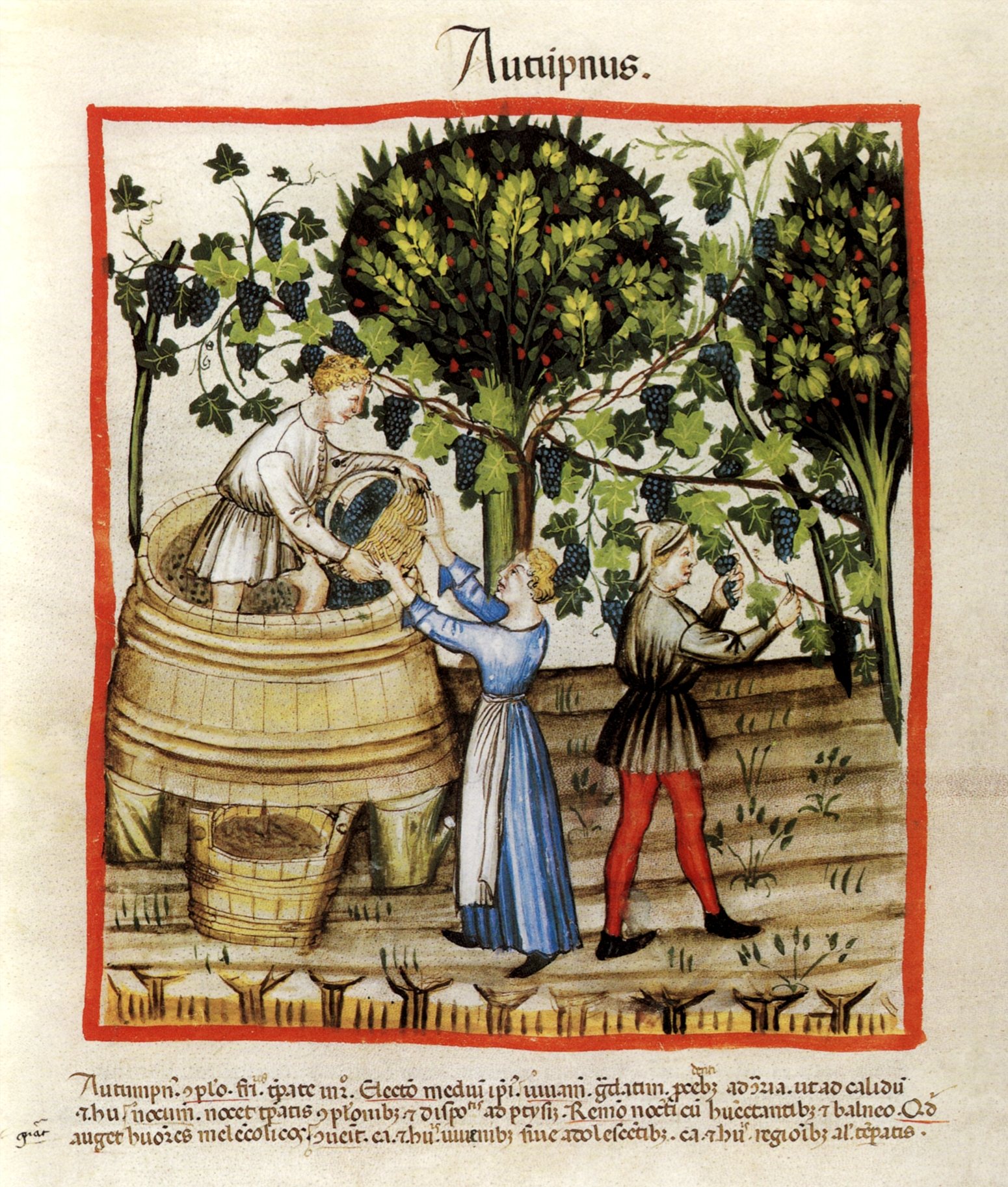 Autumn (Autumpnus) Nature: Moderately cold in the second degree. Optimum: Its central period. Usefulness: when one proceeds gradually toward opposites, ar for example, toward warmth and dampness. Dangers: It is harmful to moderate temperatures and to those predisposed toward consumption. Neutralization of the Dangers: By the application of moist elements, and with baths. Effects: Increases melancholy humors. It is suitable to warm and damp temperaments, to the young and adolescent, in warm and damp regions, or in temperate areas.